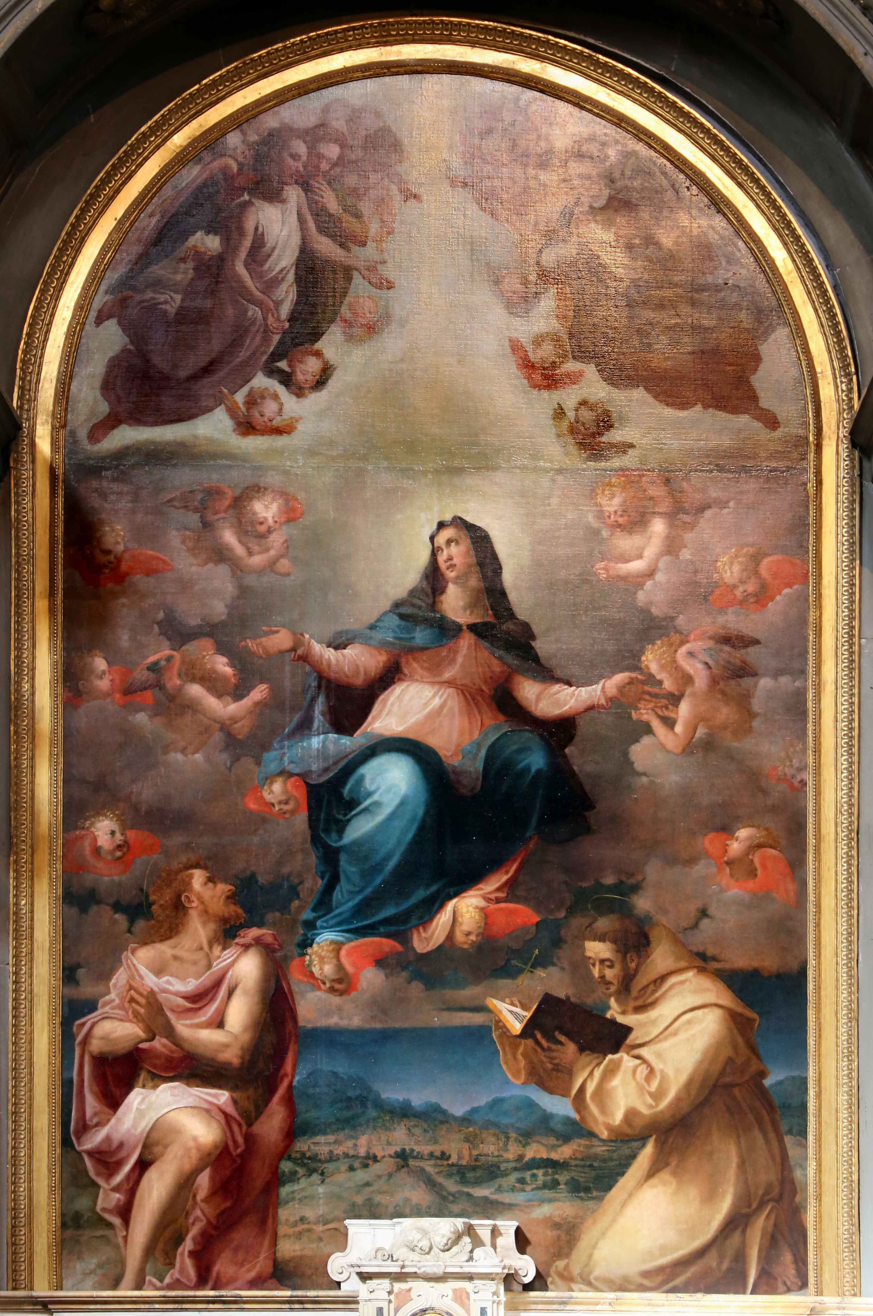 Ognissanti (Florence) - Interior